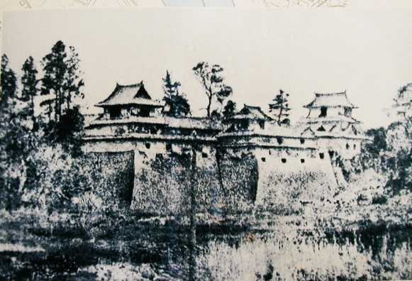 Photo of Kurume Castle, Meiji